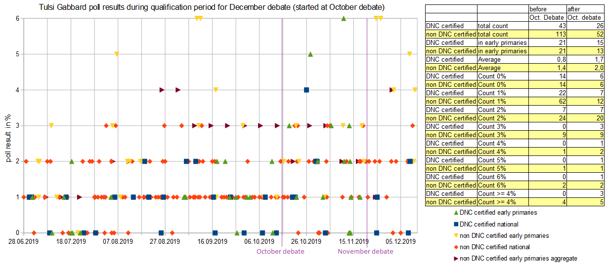 Diagram of Tulsi Gabbard poll results during the qualification period October 16 - December 12, 2019 for the December debate of the 2020 Democratic Party presidential primaries. An embedded table contains aggregates for total poll count, average result, etc. separately for DNC certified and non - DNC certified polls, as well as separately for the time period before and after the October 15, 2019 debate. The early primary states aggregate polls are not included in the data table